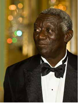 The 10th President of Ghana John Agyekum Kuffour.